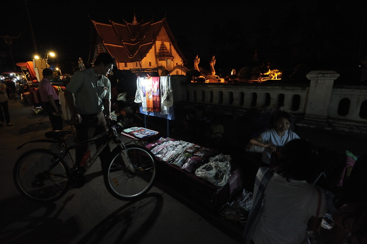 Phumin Temple13